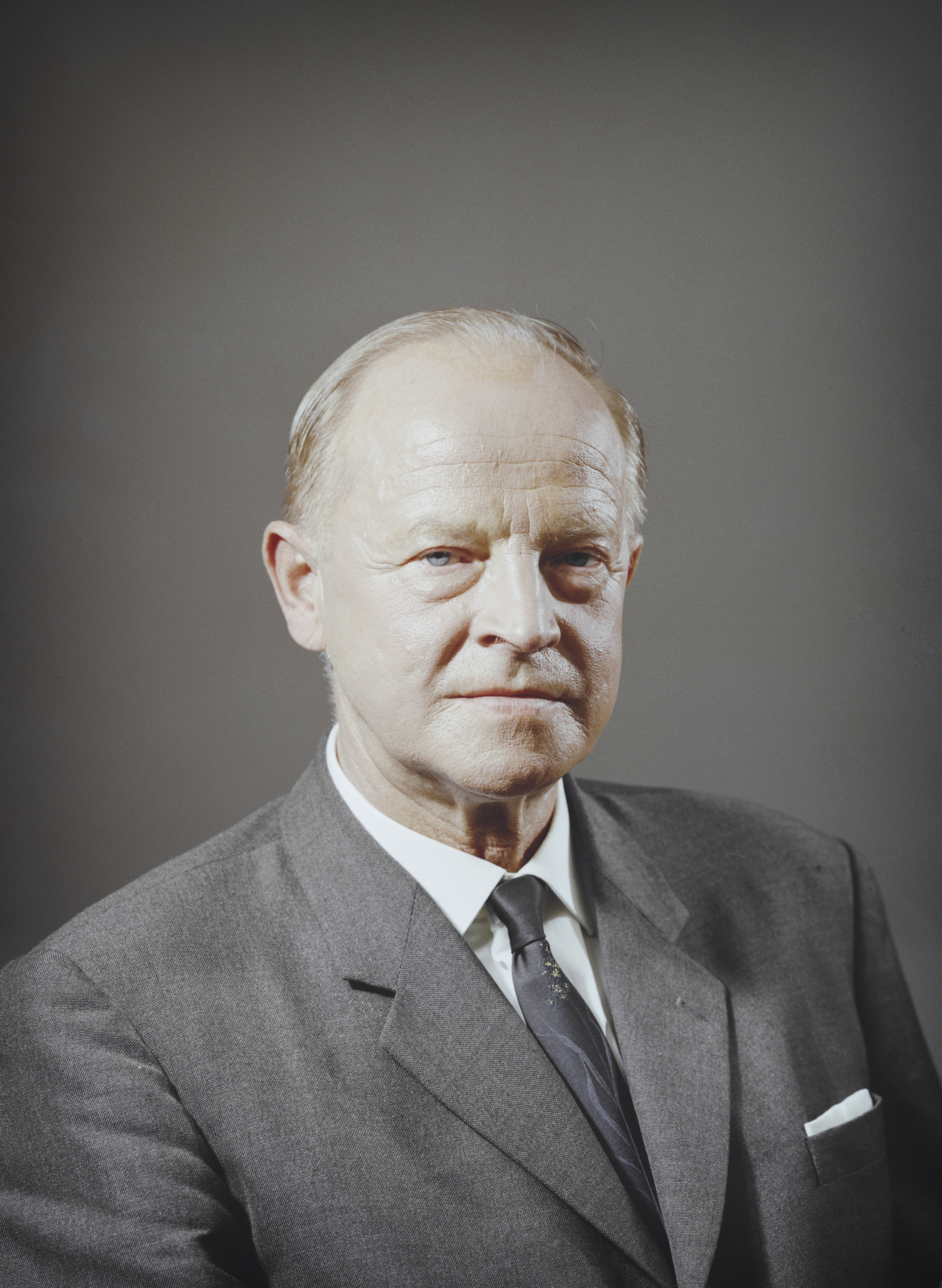 Photograph of the Finnish professor of textile technology Erkki Häyrinen (1907–1977).